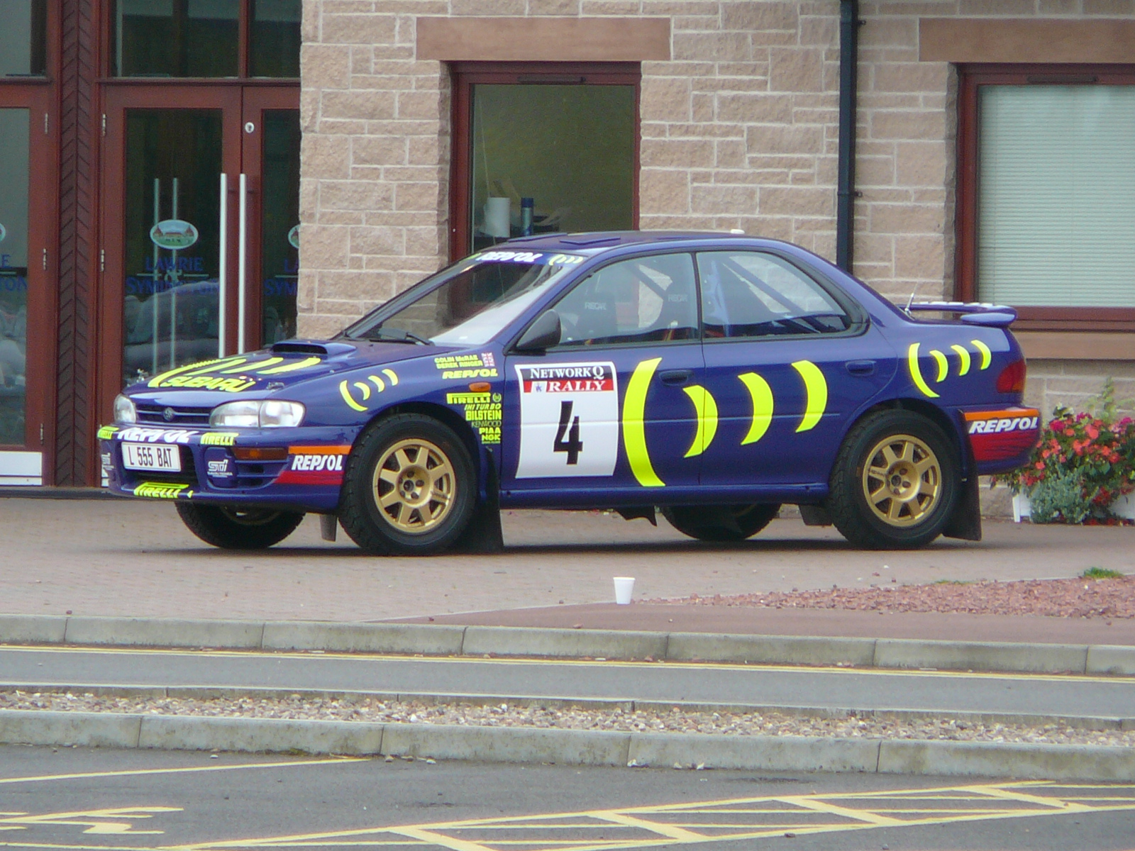 Colin McRae's 1995 World Championship winning Subaru Impreza